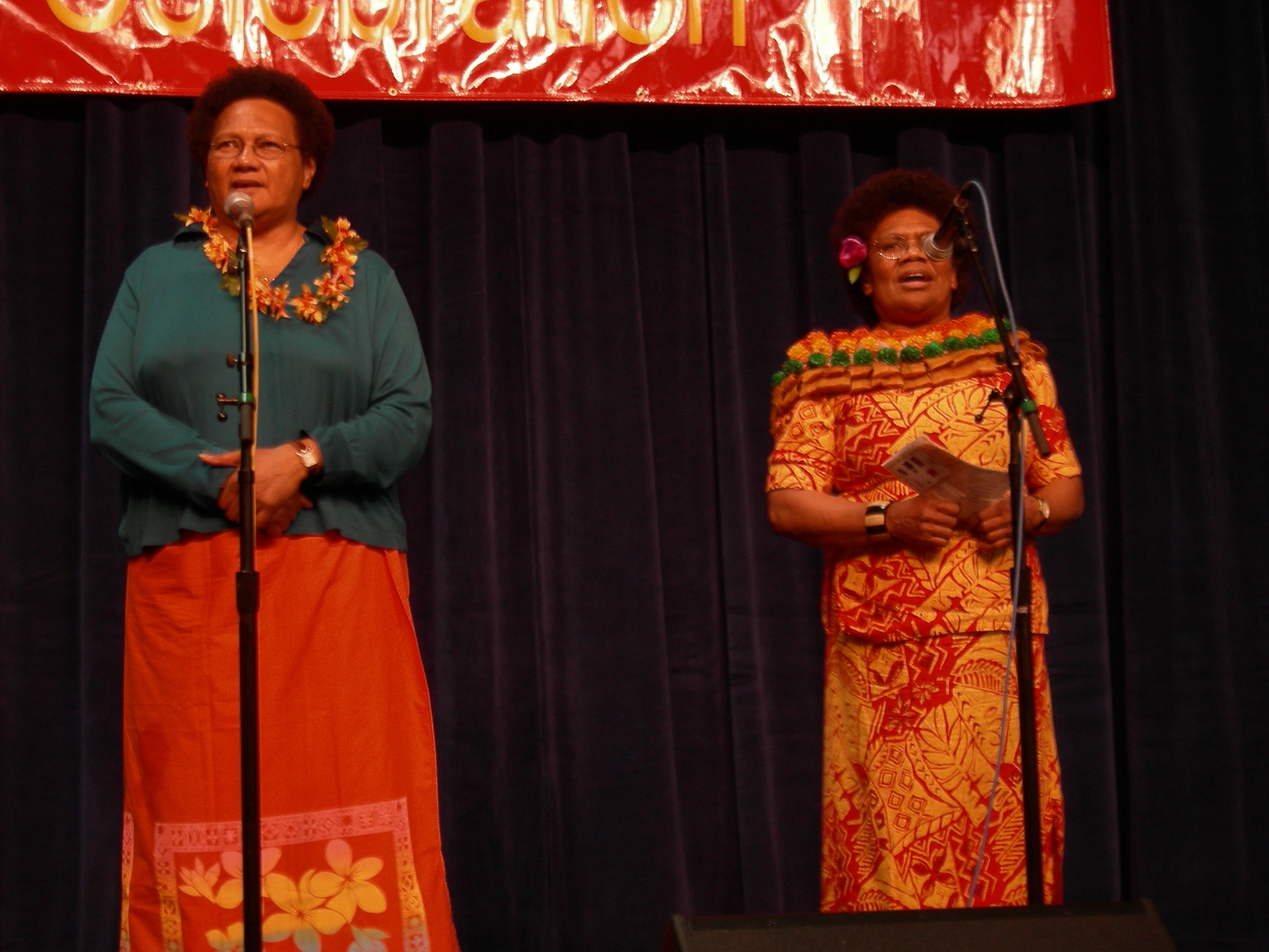 Fijian Seventh Day Adventist Choir performs at Center House, Seattle Center, as part of Festál's API (Asian Pacific Islander) Heritage Month Festival.